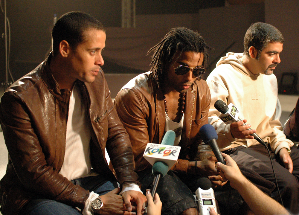 Cuban hip-hop group Orishas being interviewed by media in Warszawa, Poland during the 5th Cross Culture Festival